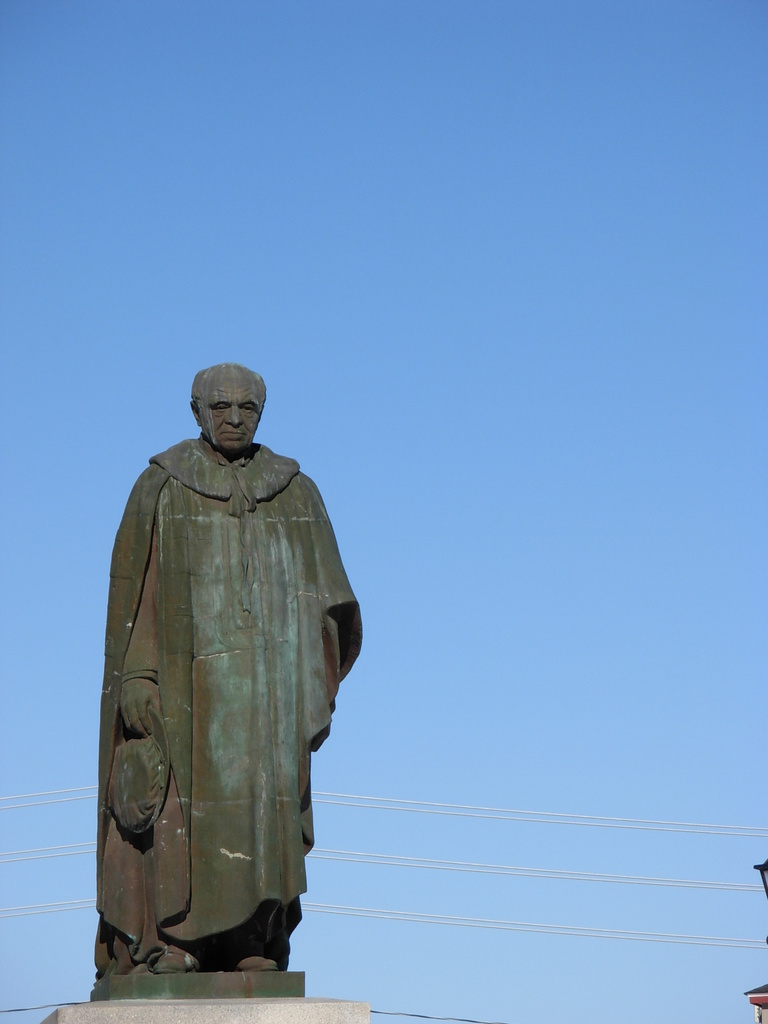 Statue of Lord Beaverbrook. I Stu_pendousmat took this photo in the winter of 2007